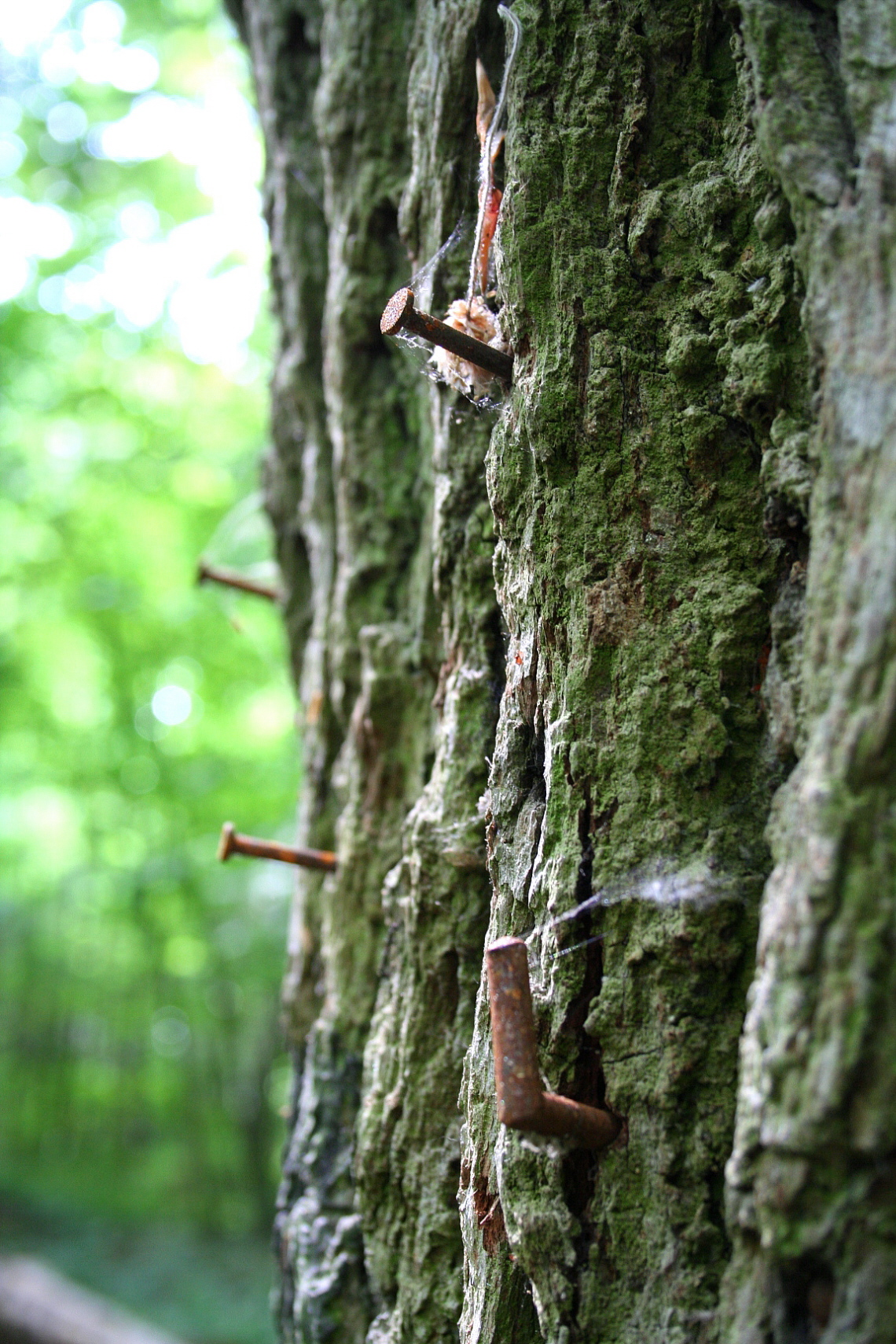 Close up on a fetish oak (fetish tree).